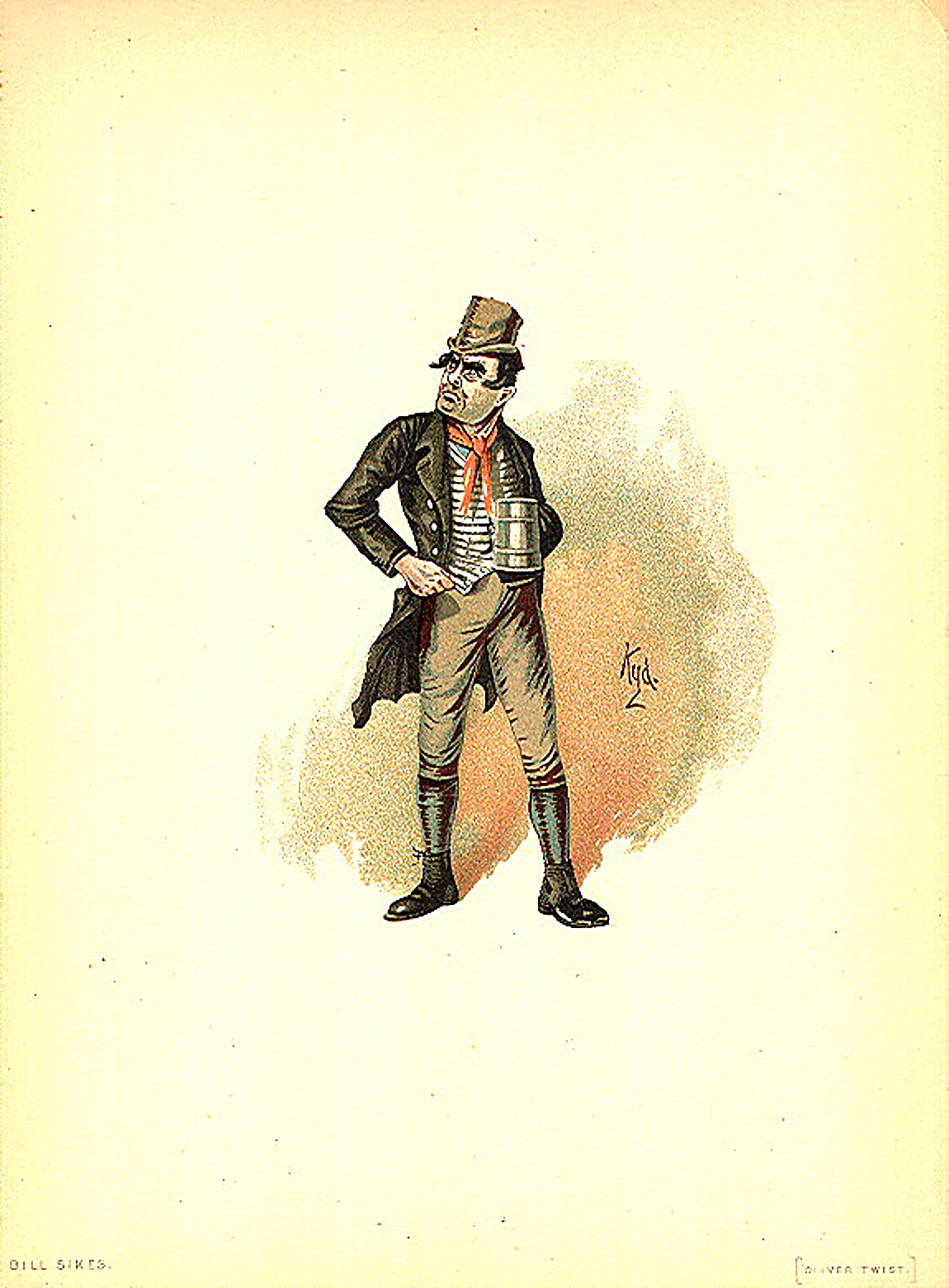 From "Character Sketches from Charles Dickens, Pourtrayed by Kyd", or "The Characters of Charles Dickens Pourtrayed in a Series of Original Water Colour Sketches by Kyd." Scanned and archived at where it was marked as Public Domain.